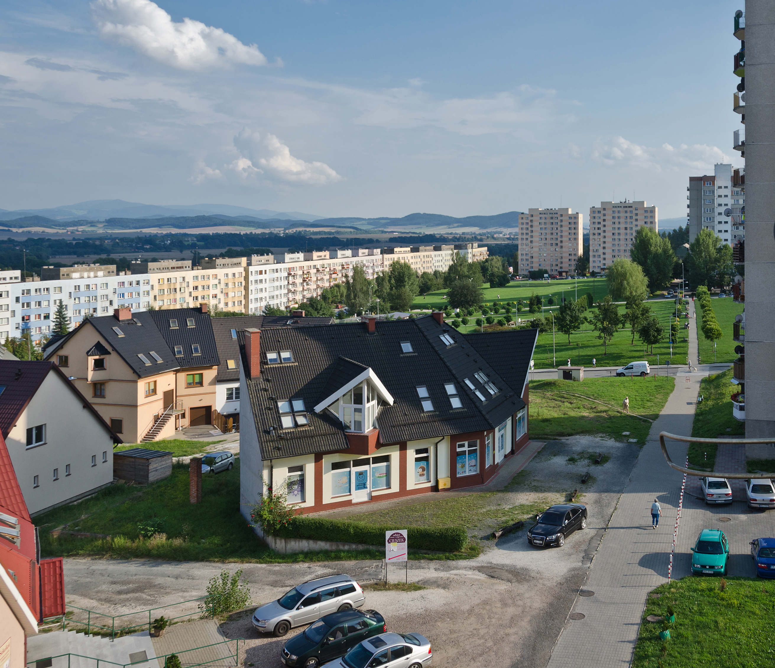 Housing Kruczkowskiego in Kłodzko